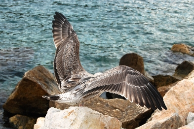 Immature Yellow-legged Gull flying